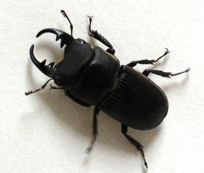 Aegus laevicollis